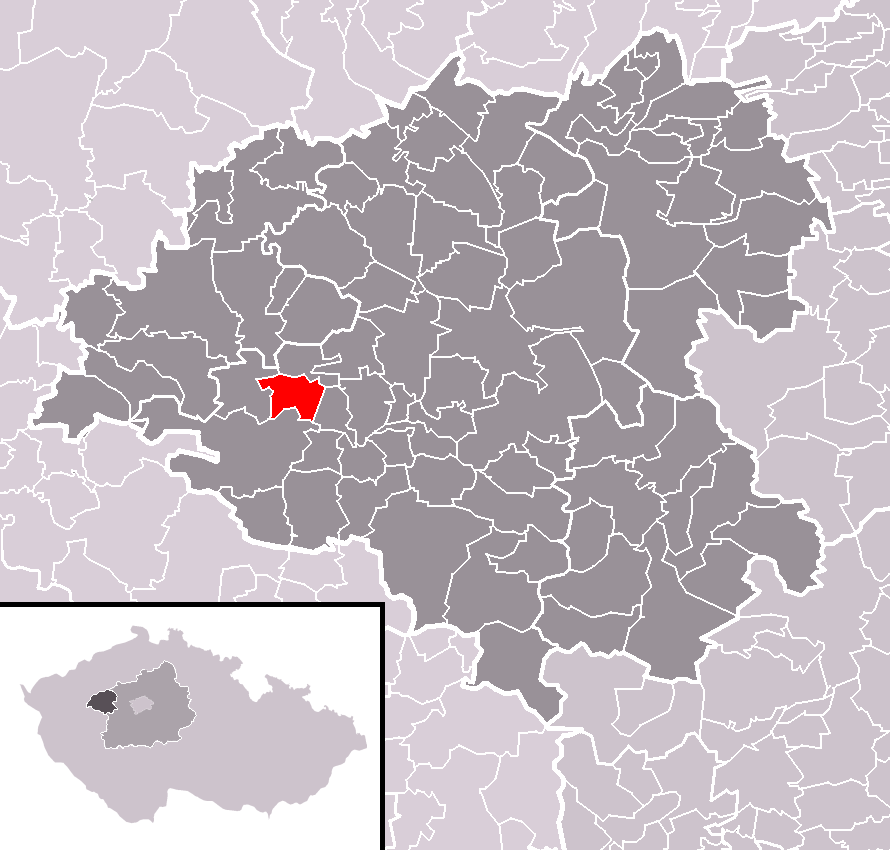 Location of Václavy municipality within Rakovník District and (identical) administrative area of Rakovník as a Municipality with Extended Competence.